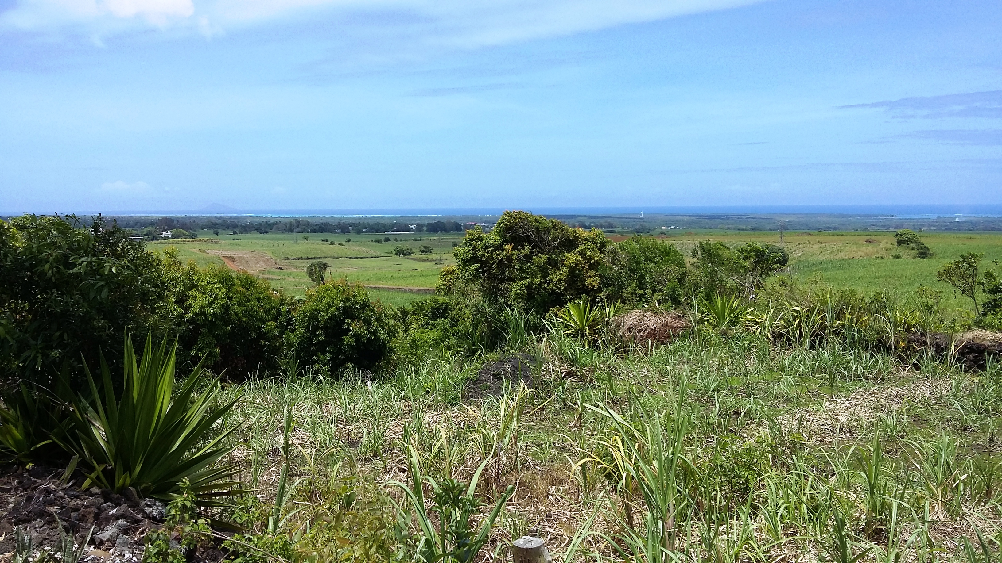 Vast sugarcane field in Giroday Road, Lalmatie, Mauritius